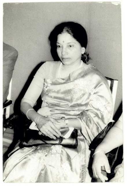 Telugu